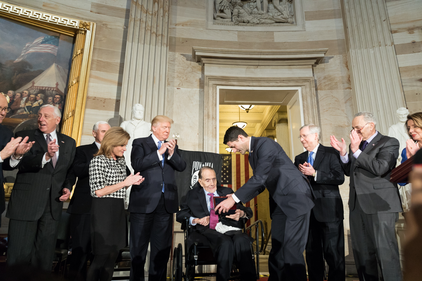 Congressional Gold Medal recipient Senator Bob Dole | January 17, 2018 (Official White House Photo by Shealah Craighead)